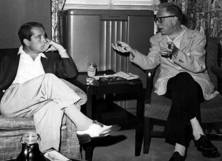 Promotional photo of Perry Como and writer Goodman Ace, prior to the start of The Perry Como Show on September 17, 1955. This photo was produced prior to 1978 and has no copyright markings. It can be dated by the NBC information on the back of the photo which is shown in the original upload and the photo link above, and also by the date the program began--September 17, 1955. The 23 December 1988 date stamp on the photo appears to have been placed there by the newspaper for internal file purposes. The original press release carries the NBC Xylophone logo which was in use by NBC from 1953-1960. This is in keeping with the timeframe of when this version of the Como show aired for the first time.